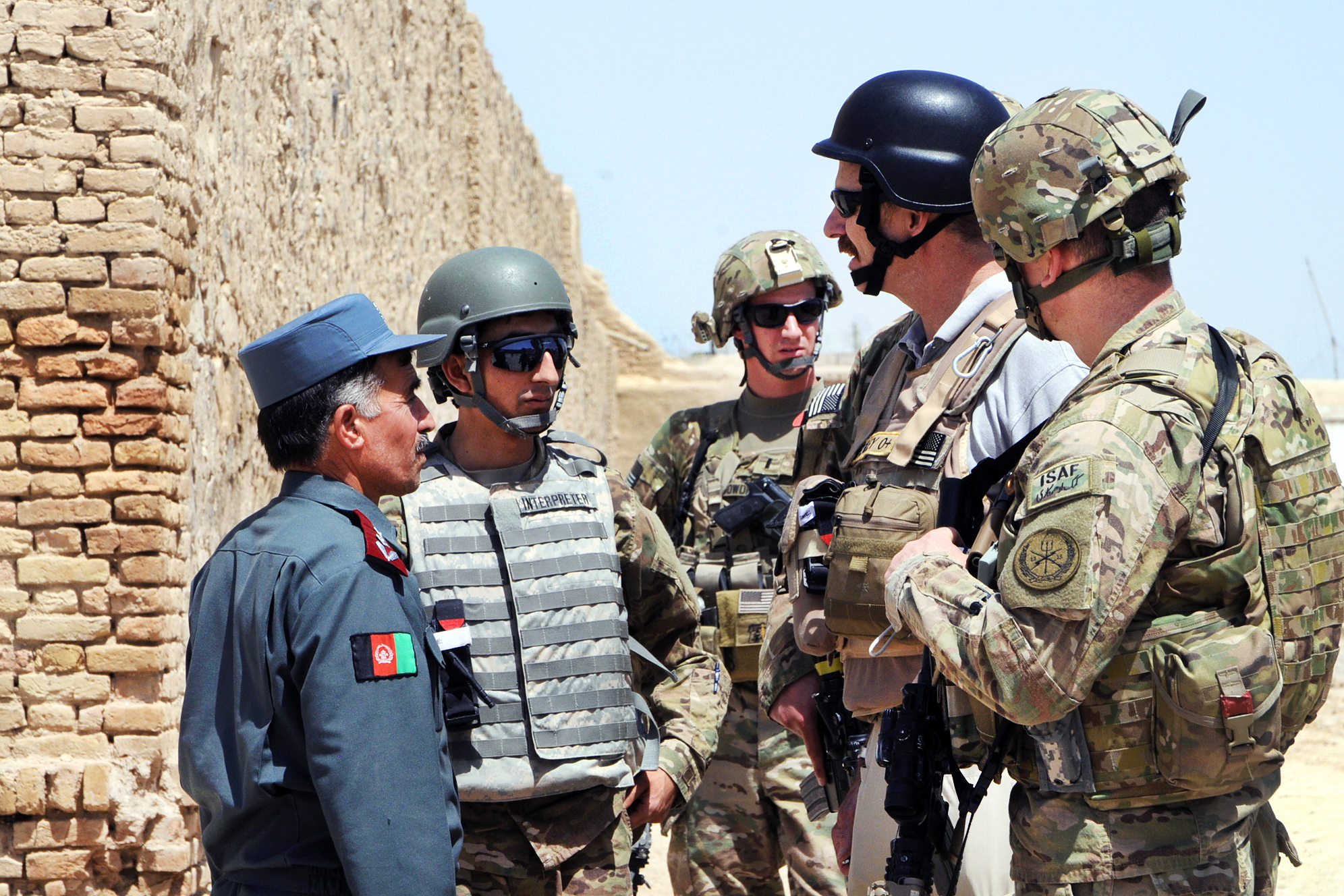 Afghan Lt. Col. Abdul Qayoum Azami, Farah City prison warden, leads members of Provincial Reconstruction Team Farah on a tour of the prison in Farah province, Afghanistan, April 24, 2012.